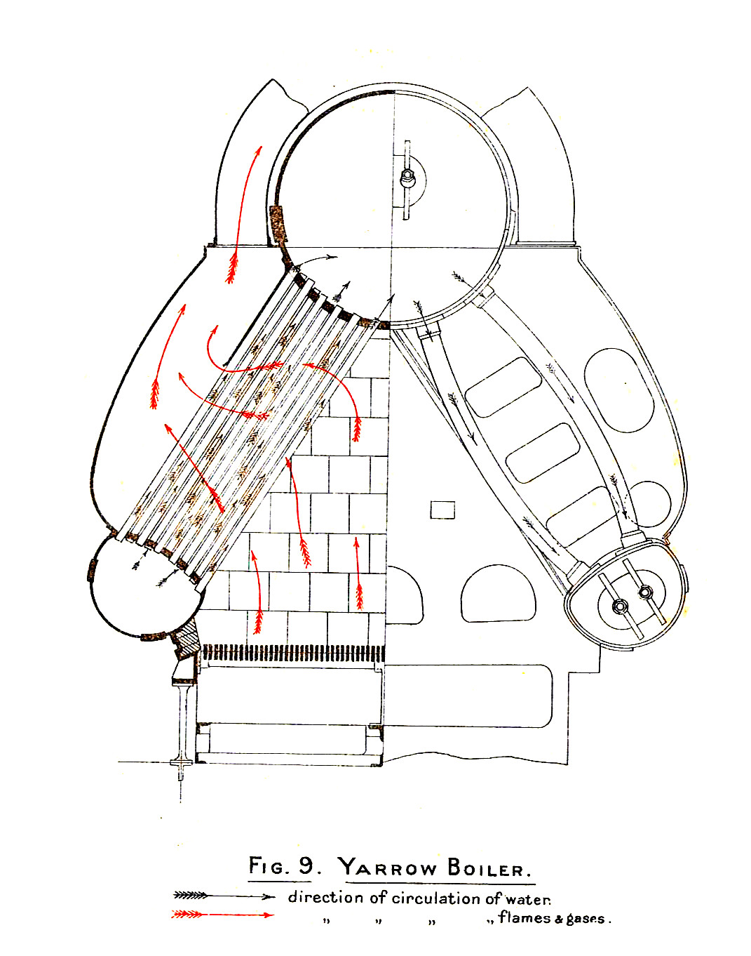 Yarrow marine boiler Yarrow boiler. End-section view. Scans from 'Stokers' Manual 1912', the Royal Navy's standard training handbook, "for engine-room ratings not entitled to the steam manuals and seamen under training in mechanical and stokehold work". See other images from this source in Scans from 'Stokers' Manual 1912'